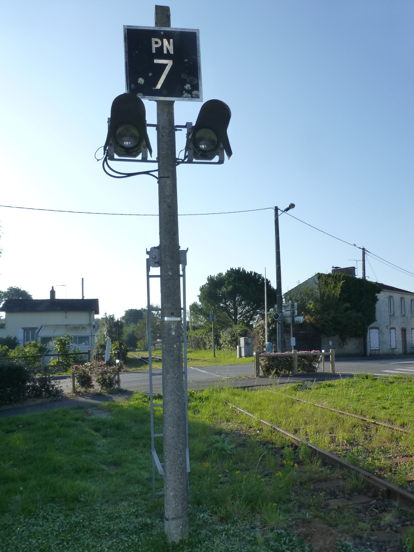 Chéméré, Railway station - 1